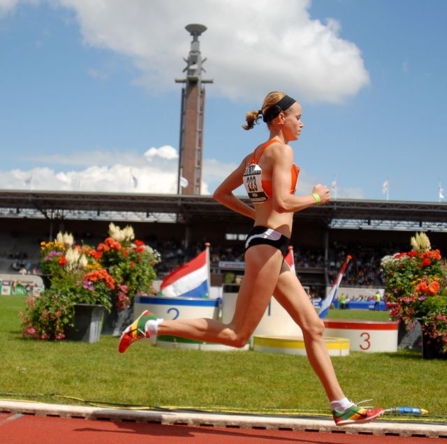 Selma Borst during Dutch Championship 2007 in Amsterdam